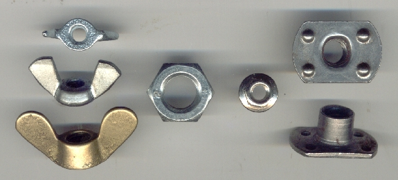 An image of nuts.